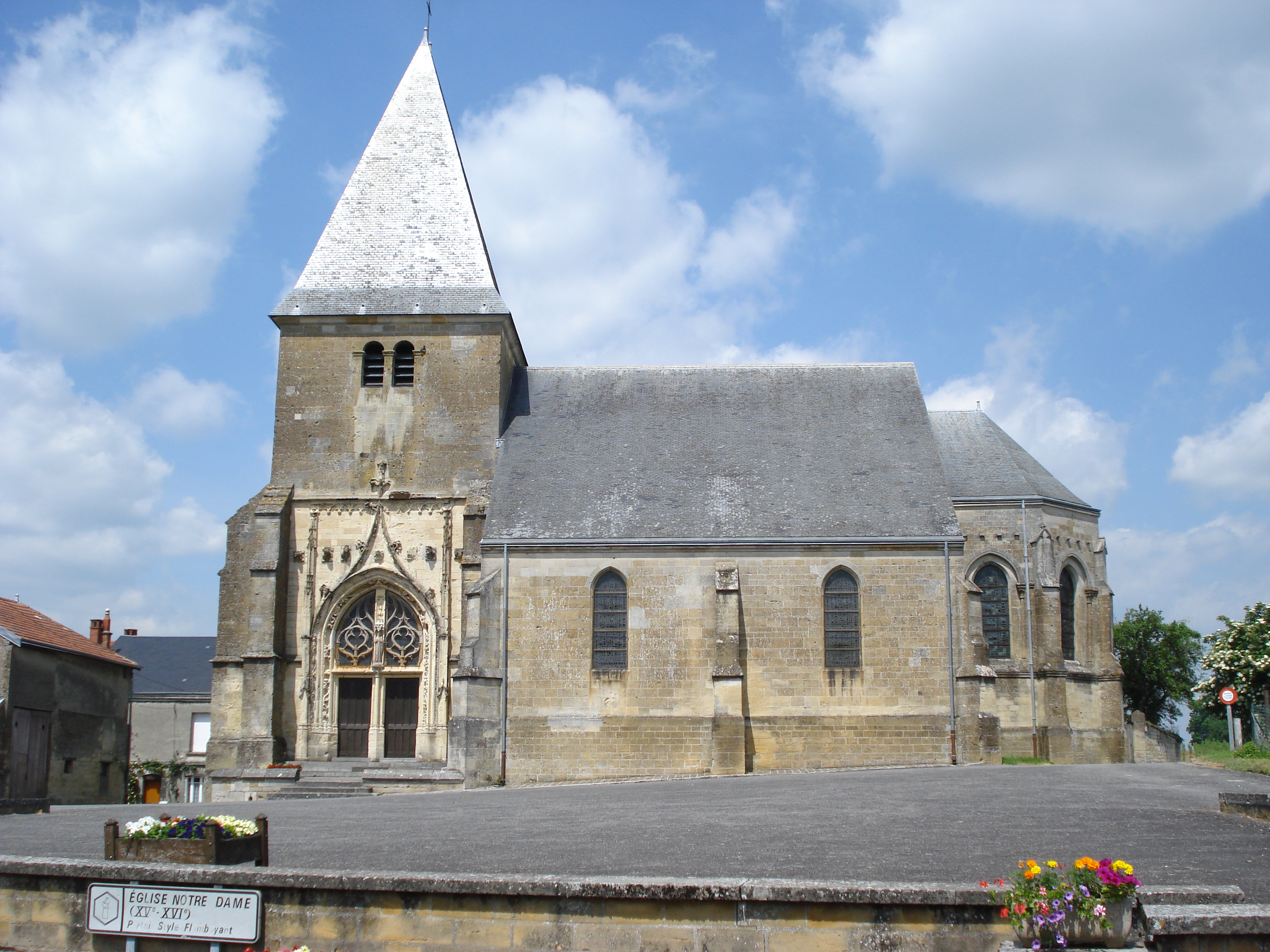 Voncq (Ardennes, Fr.) church sideview.